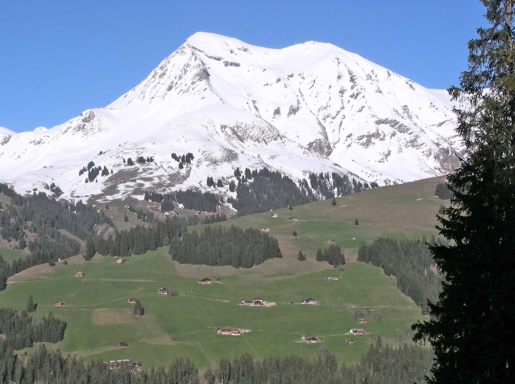 Albristhorn with Obersteg